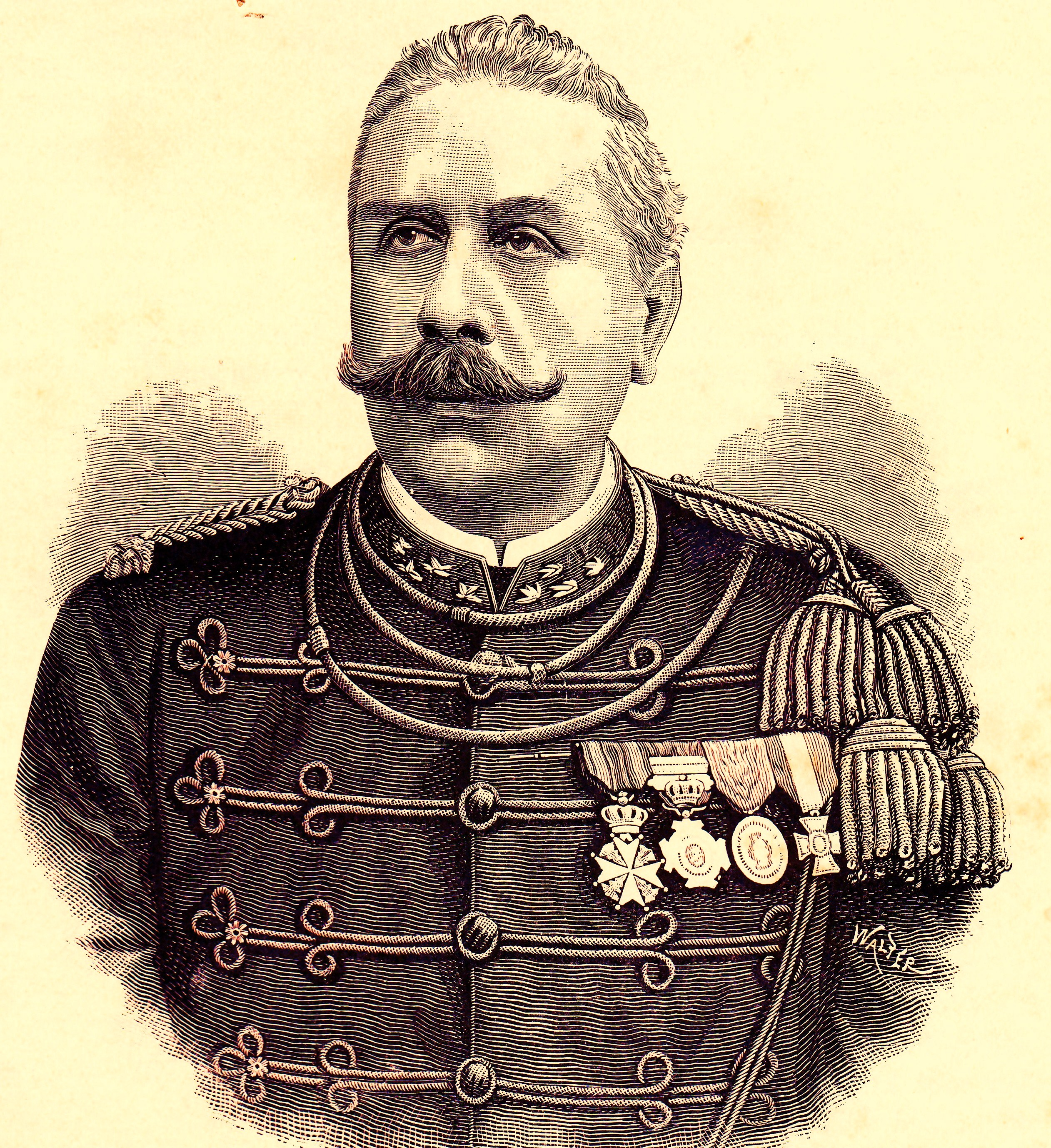 Generaal majoor P.P.M. van Ham